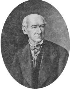 Pyotr Karatygin (1805—1879) - russian playwright.